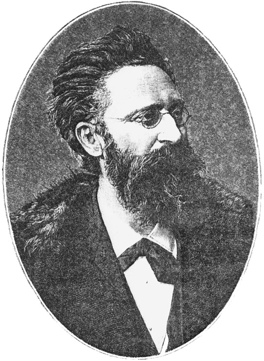 Portrait of Moritz Thausing, from H.H. Aurenhammer, "150 Jahre Kunstgeschichte an der Universitaet Wien."